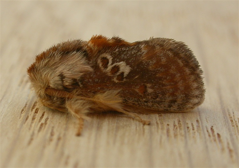 Pseudanapaea transvestita Hering, 1931, to MV light in Aranda, ACT, 10/11 April 2008